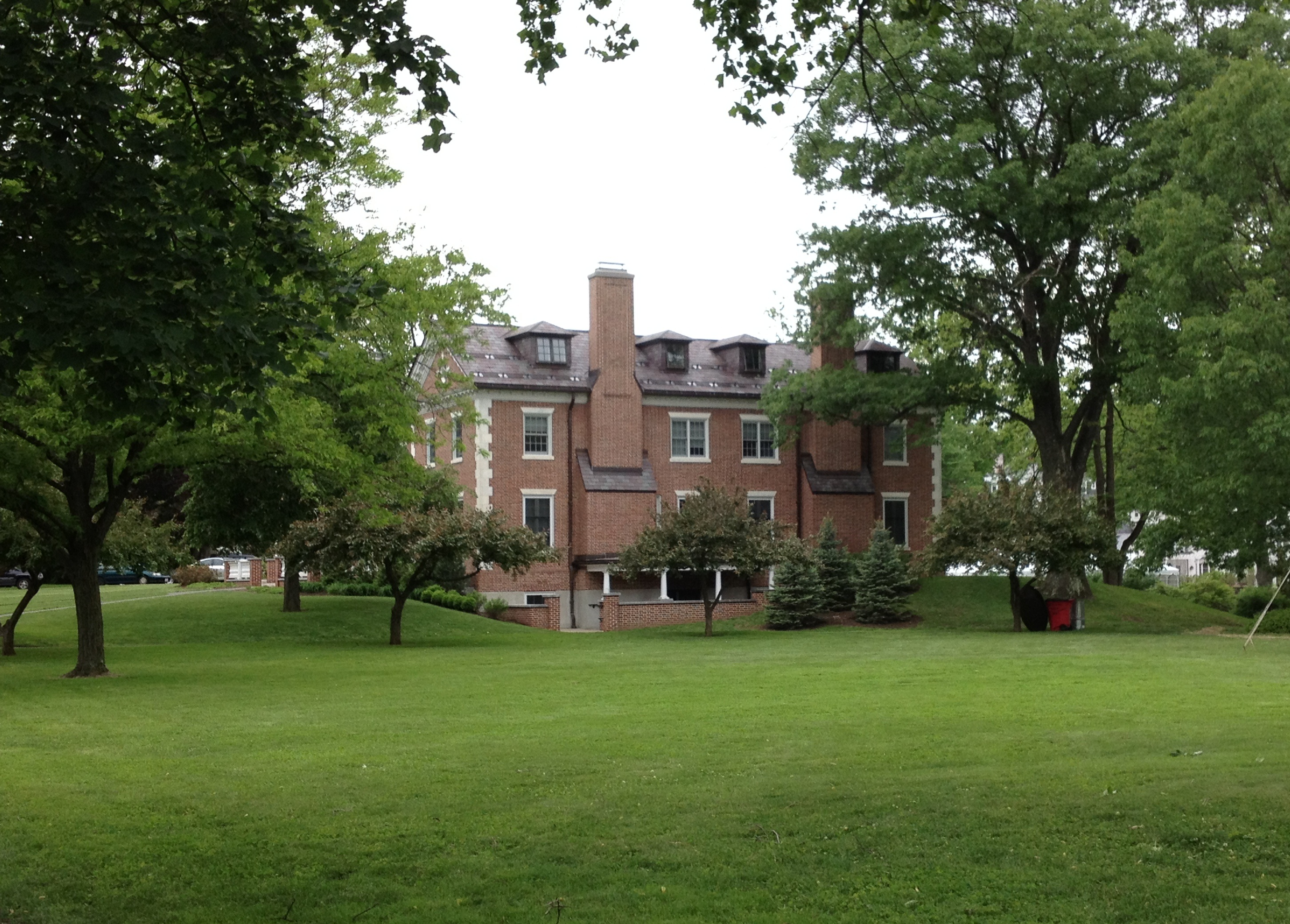 Lipton House, Amherst College.